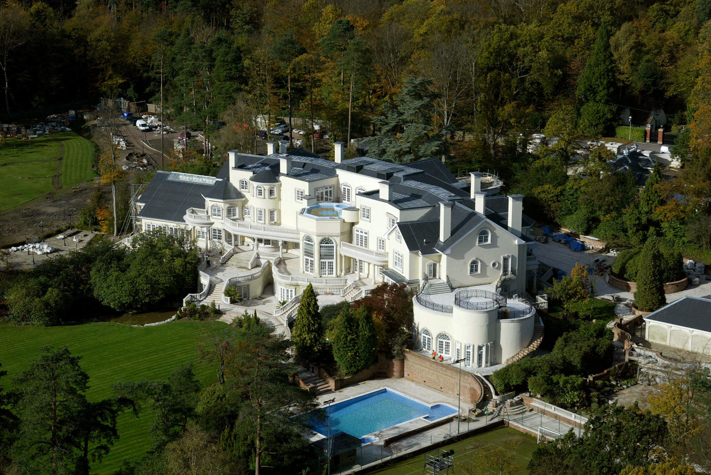 This mansion is one of the largest built between 1960 and 2000 in England and is towards the rural Valley End sublocality of Windlesham, Surrey Heath, Surrey.